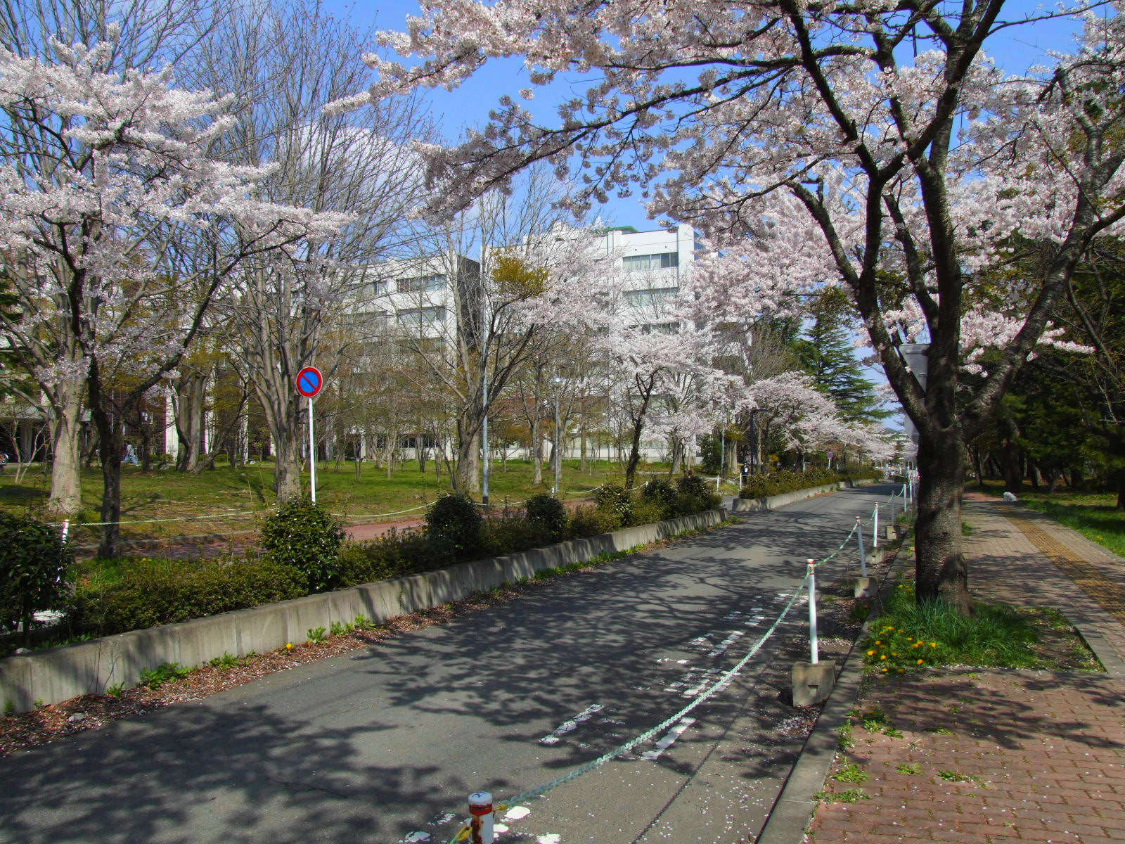 Nakazen Avenue of Tōhoku University. Sendai, Miaygi prefecture, Japan.